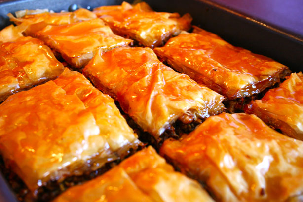 Greek cake made of filo and walnuts